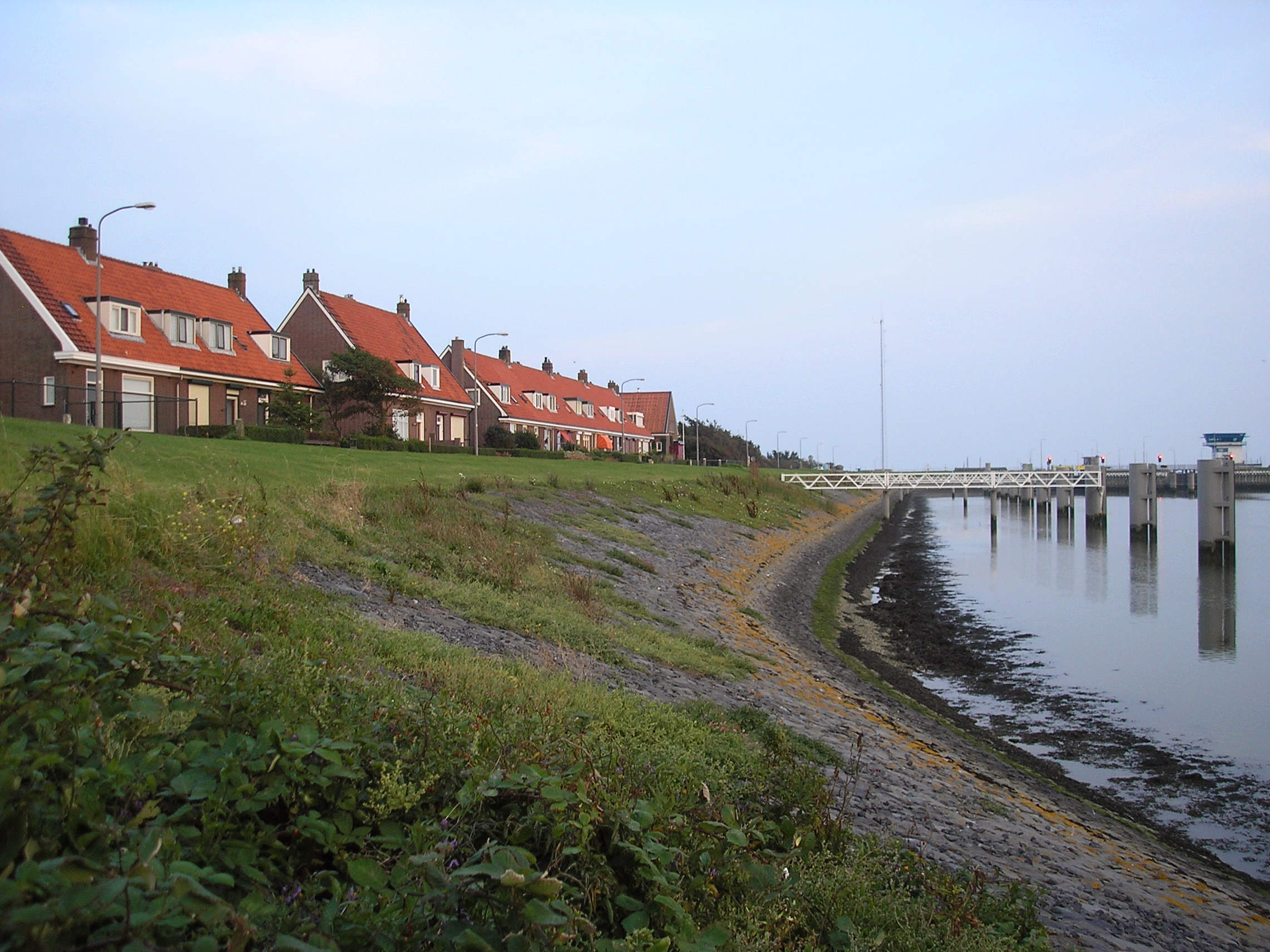 Kornwerderzand, Netherlands - Village